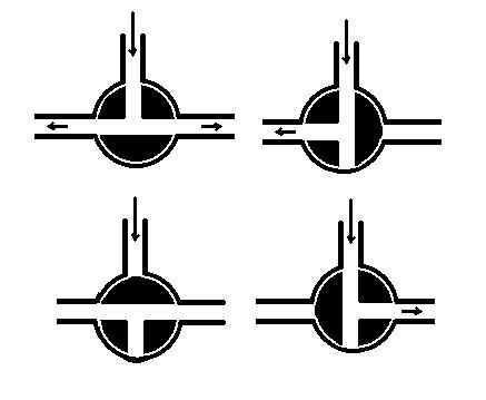 schematic 3 way ball valve © drawing by MH 20:13, 2004 Nov 23 (UTC)